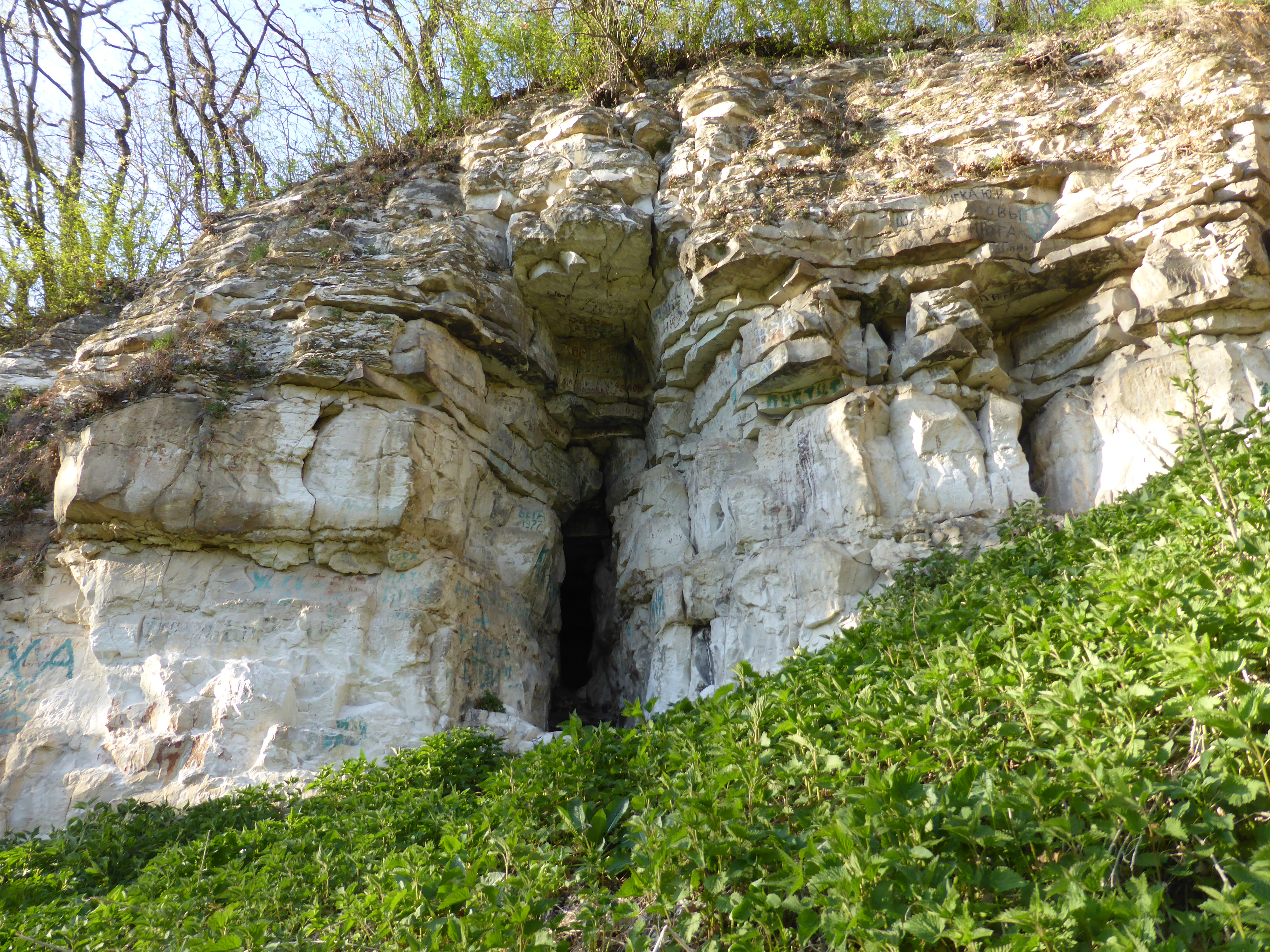 cave Alimkina